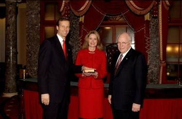 Senator Thune reenacts his swearing in ceremony with his wife Kimberly and Vice President Cheney.